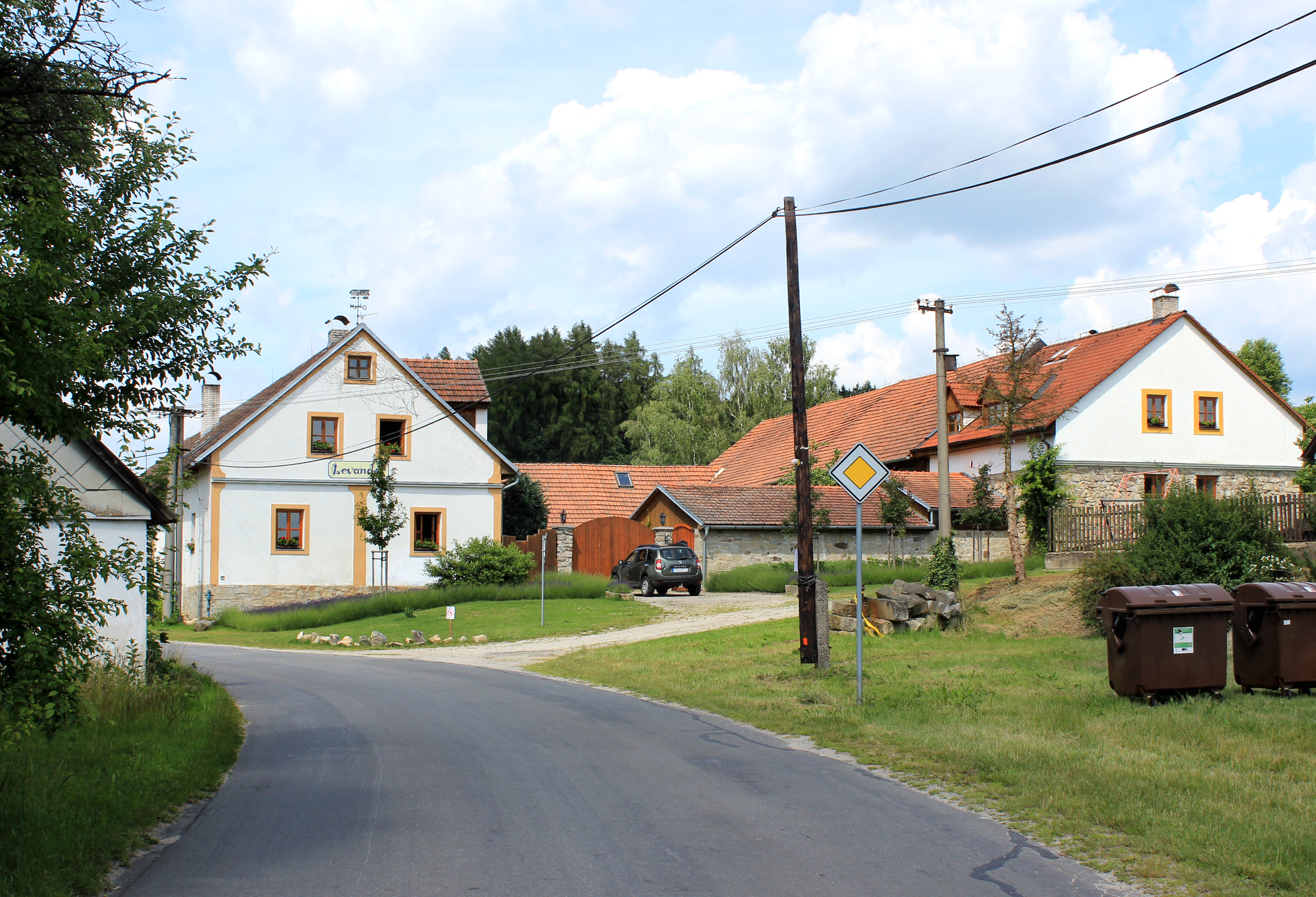 House No 72 in Horní Radouň, Czech Republic.